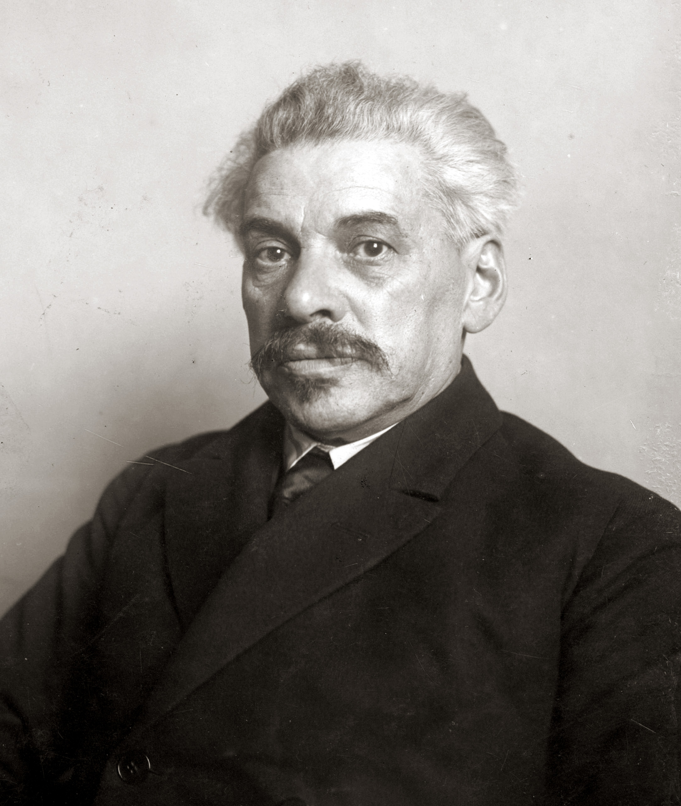 Adolf Warski Polish socialist and communist politician,member of Polish Sejm, later in USSR, executed by NKVD during Stalin great purge in USSR in 1930-ties